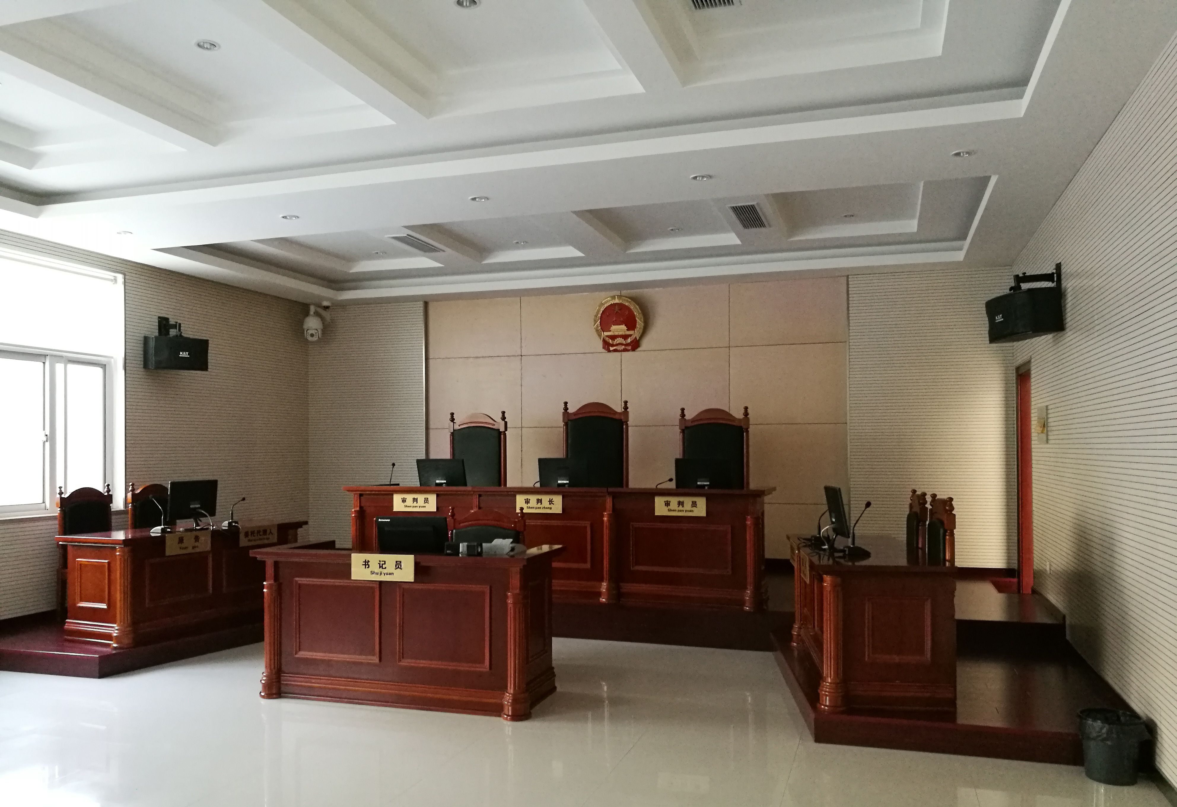 Court room in Jiangsu Province, People's Republic of China